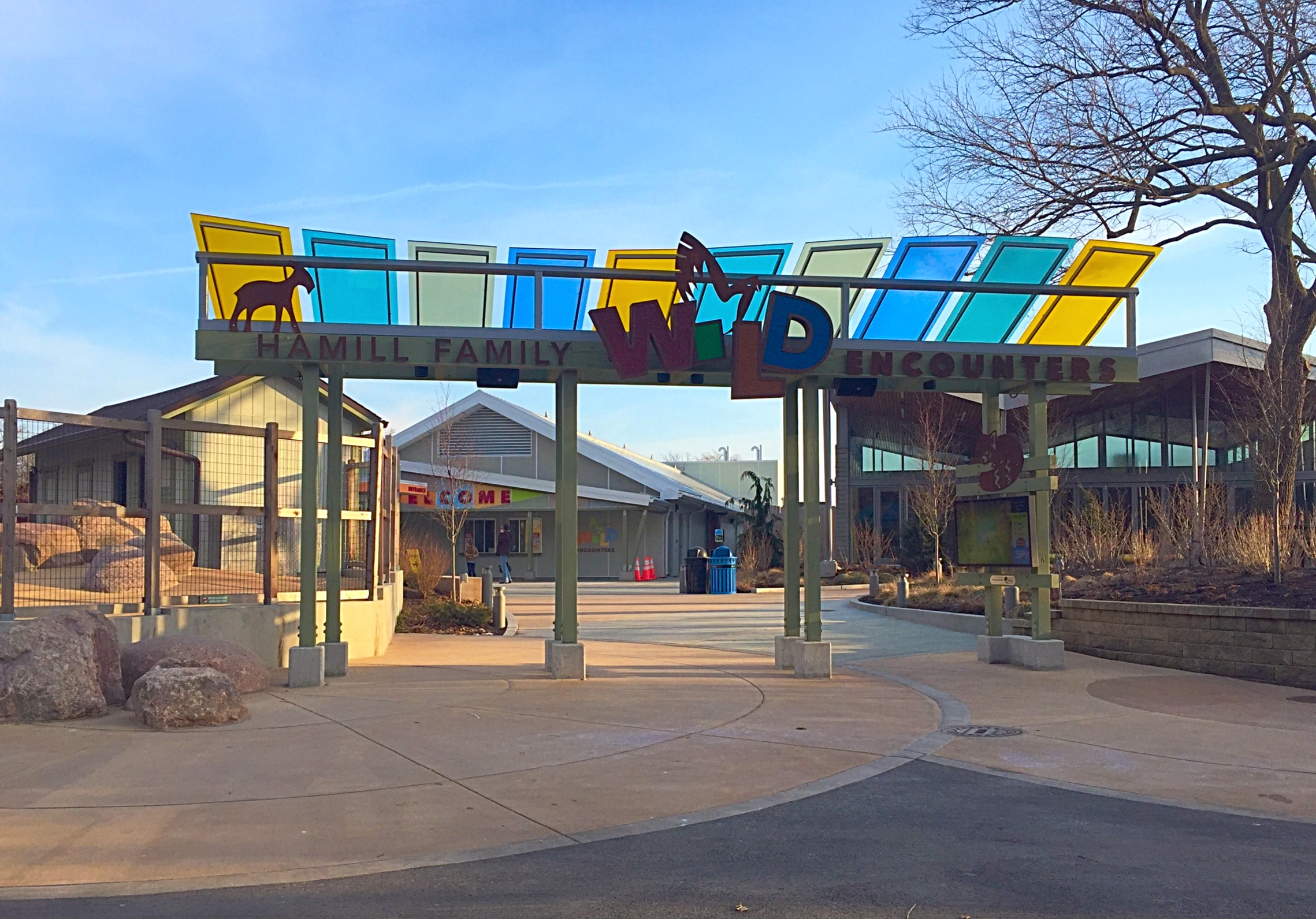 Hamill Family Play Zoo entrance